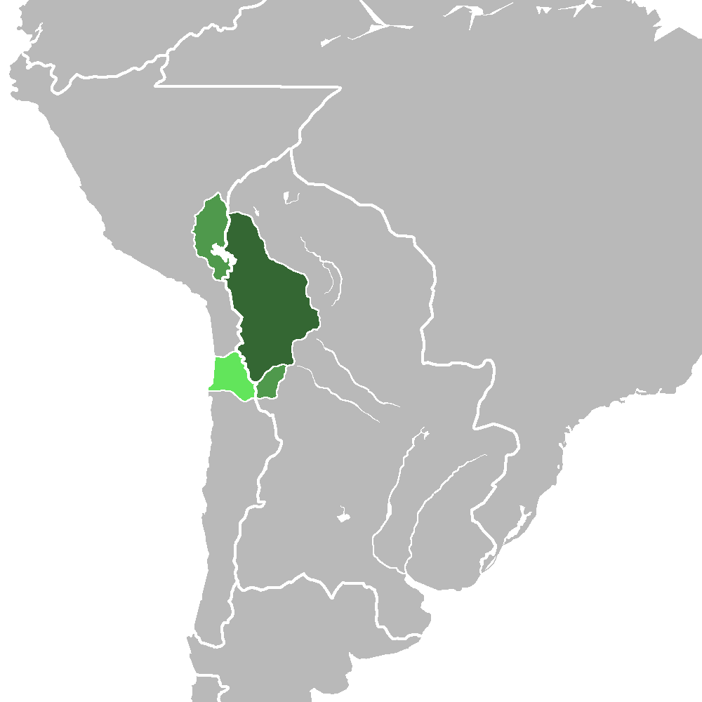 Location of the Upper Peru in orthographic projection, 1783. Real Audiencia of Charcas territory. Territories later claimed.